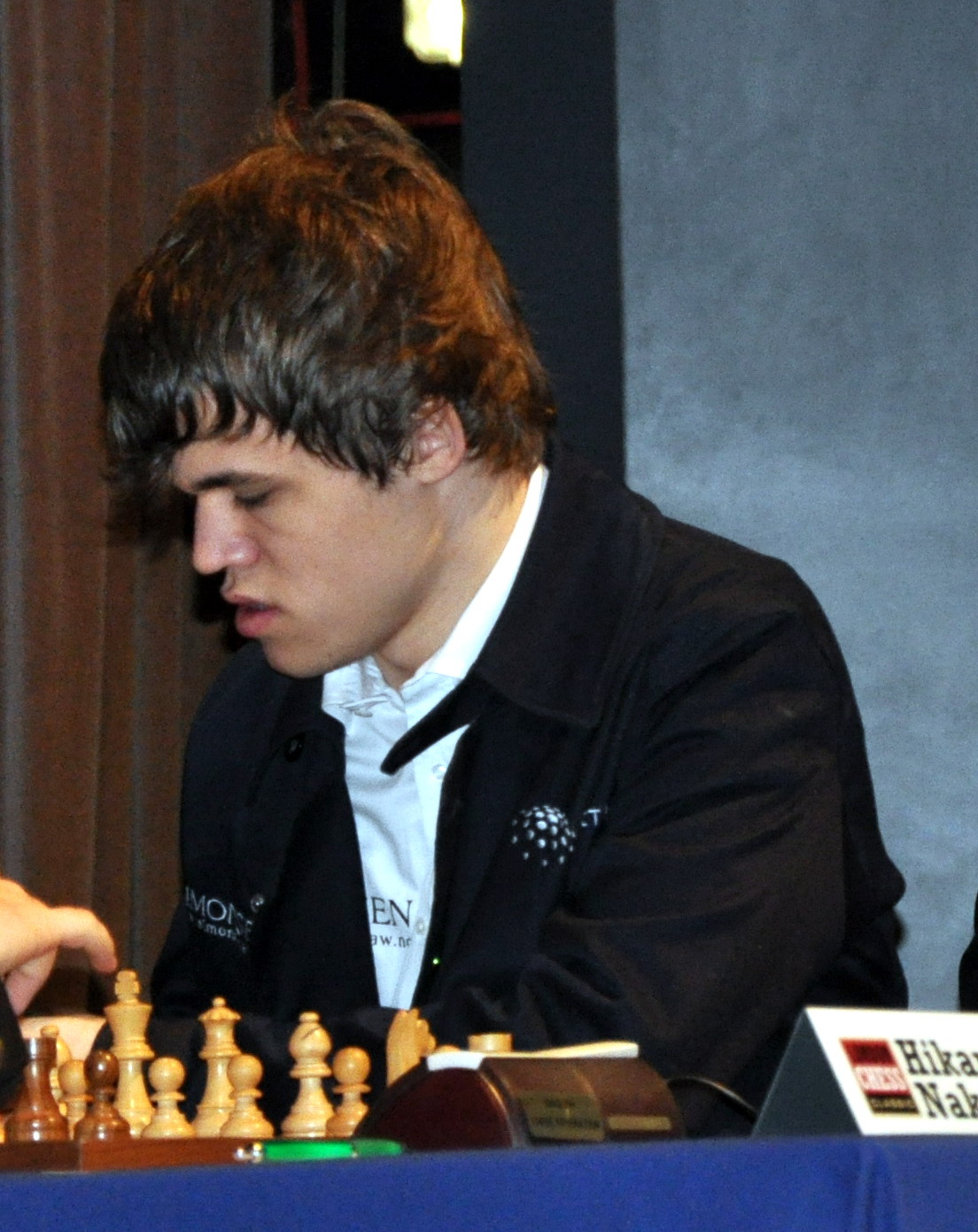 Magnus Carlsen - London Chess Classic 2010